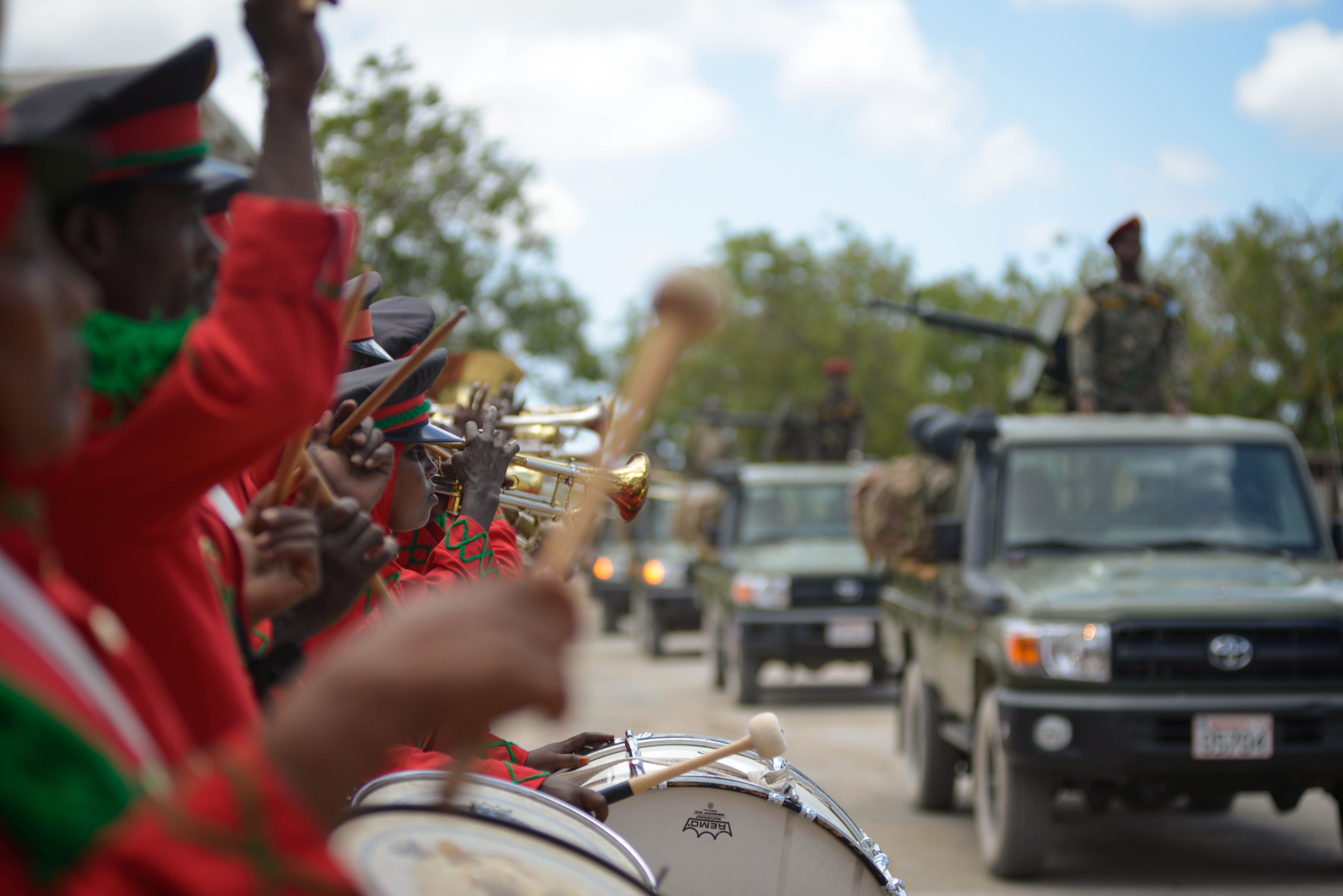 A military band plays during a parade at the Somali Armed Forces Headquarters to celebrate the army's 56th anniversary in Mogadishu, Somalia, on April 12. AMISOM Photo / Tobin Jones Personality rights warning Although this work is freely licensed or in the public domain, the person(s) shown may have rights that legally restrict certain re-uses unless those depicted consent to such uses. In these cases, a model release or other evidence of consent could protect you from infringement claims.